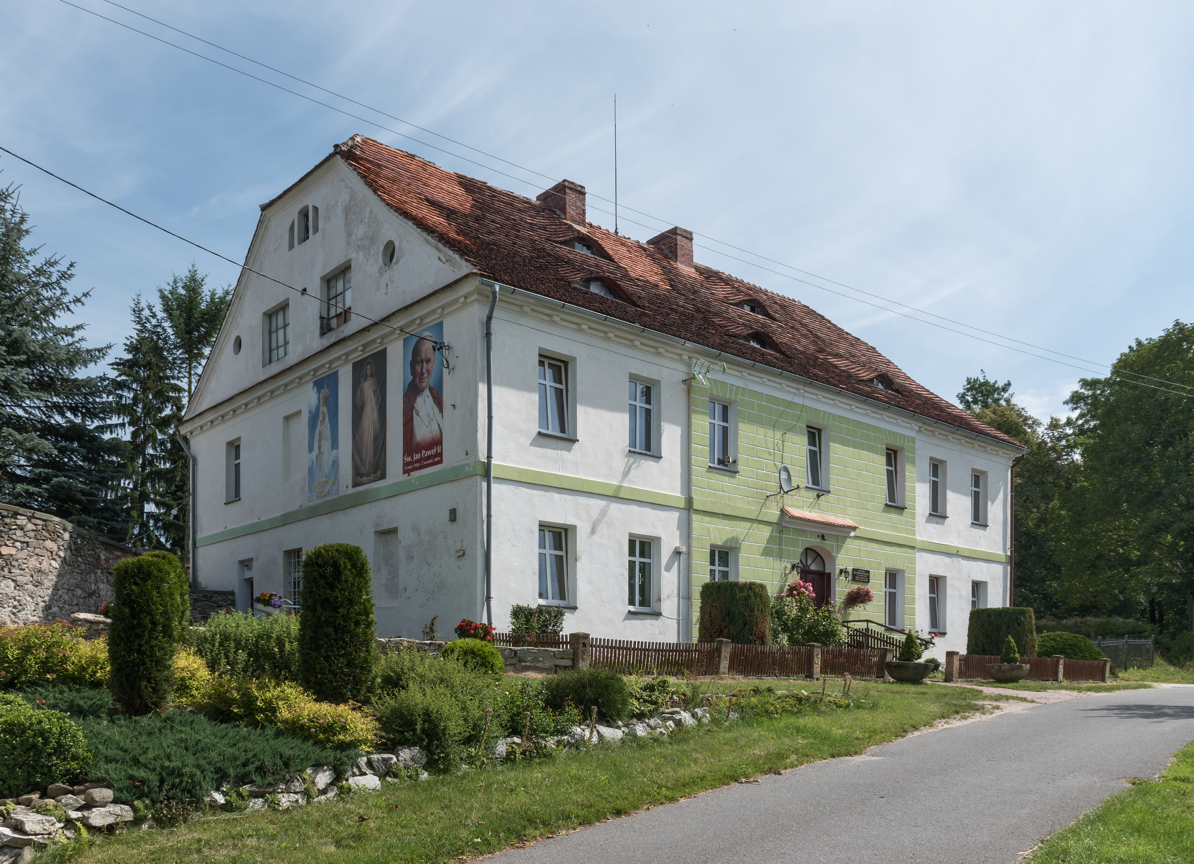 Rectory in Trzebieszowice